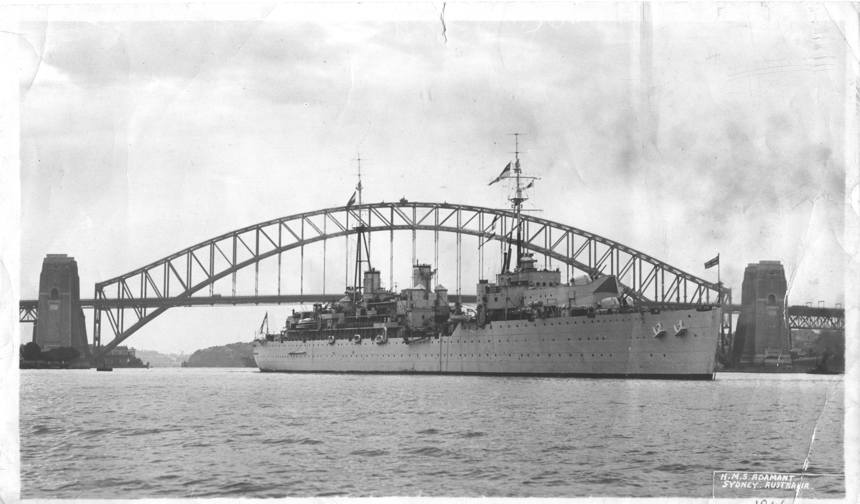 HMS Adamant in Sydney Harbour.